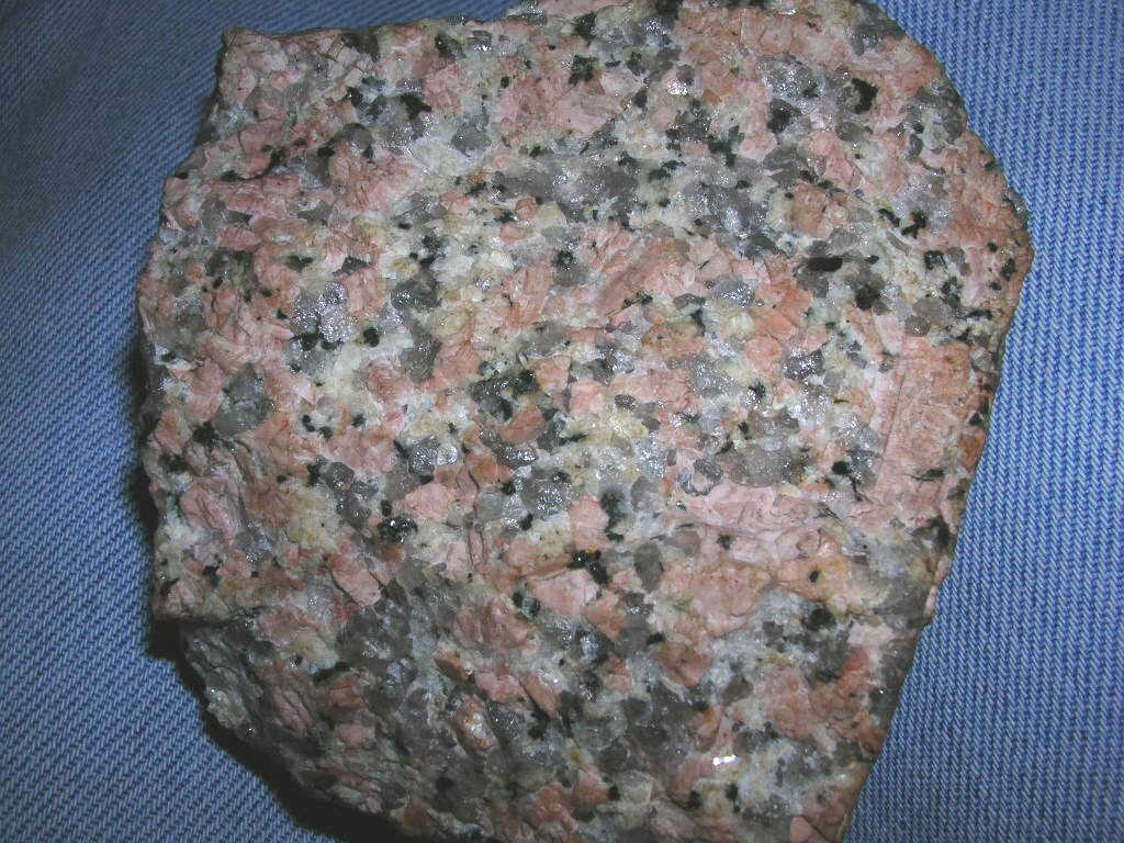 Baveno pink granite. Holocrystalline texture, medium-grained. Minerals are isotropically distributed and consist of potassium feldspar (pink in colour), quartz (vitreous, shining), plagioclase (grayish) and biotite (black). From Baveno (VCO), Italy.